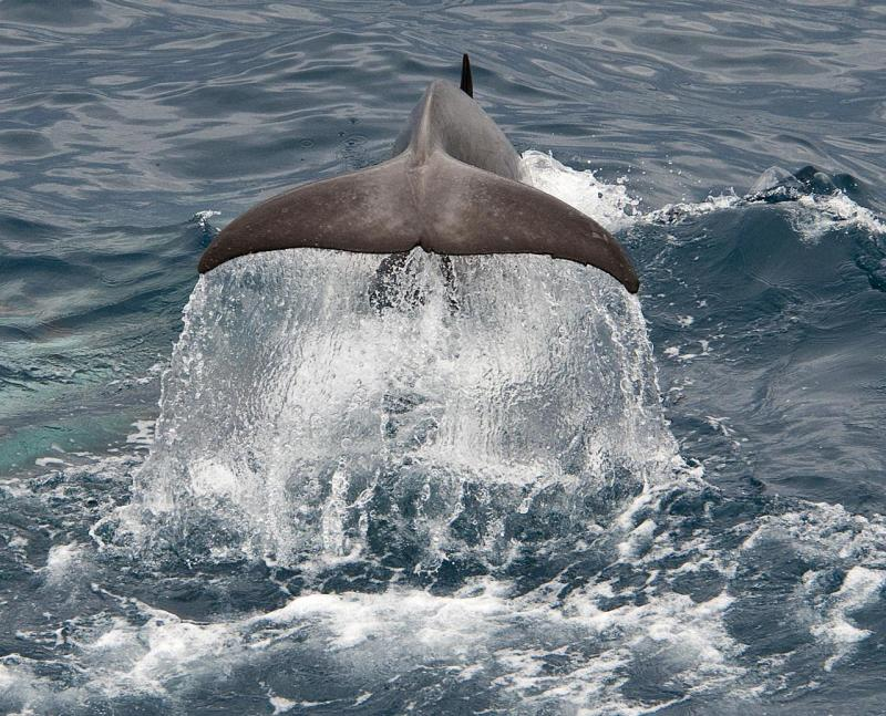 091201_south_georgia_orca_5018